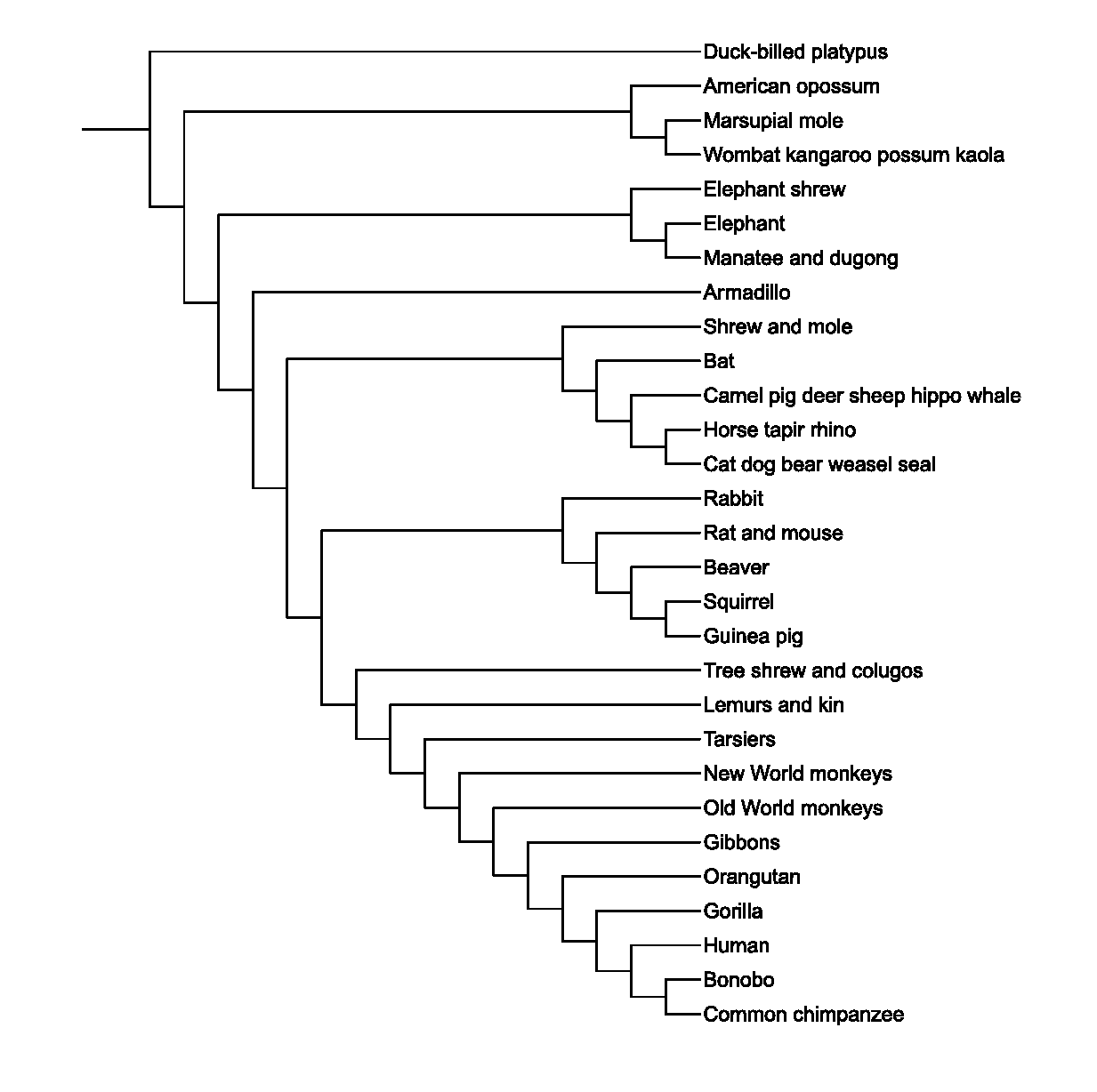 A cladogram showing relationship between mammalian species as discussed in The Ancestor's Tale. The image is generated using iTOL: Interactive Tree Of Life. Generated at 300dpi, font=12, line=1. Cropped in Photoshop.